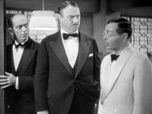 L. to R. : George Cooper, Sig Ruman & Peter Lorre in Think Fast, Mr. Moto - trailer (cropped screenshot)